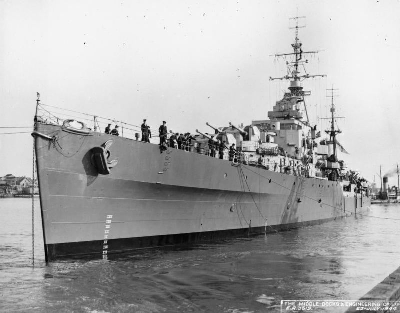 Photograph of British light cruiser HMS Black Prince, under tow on the Tyne.